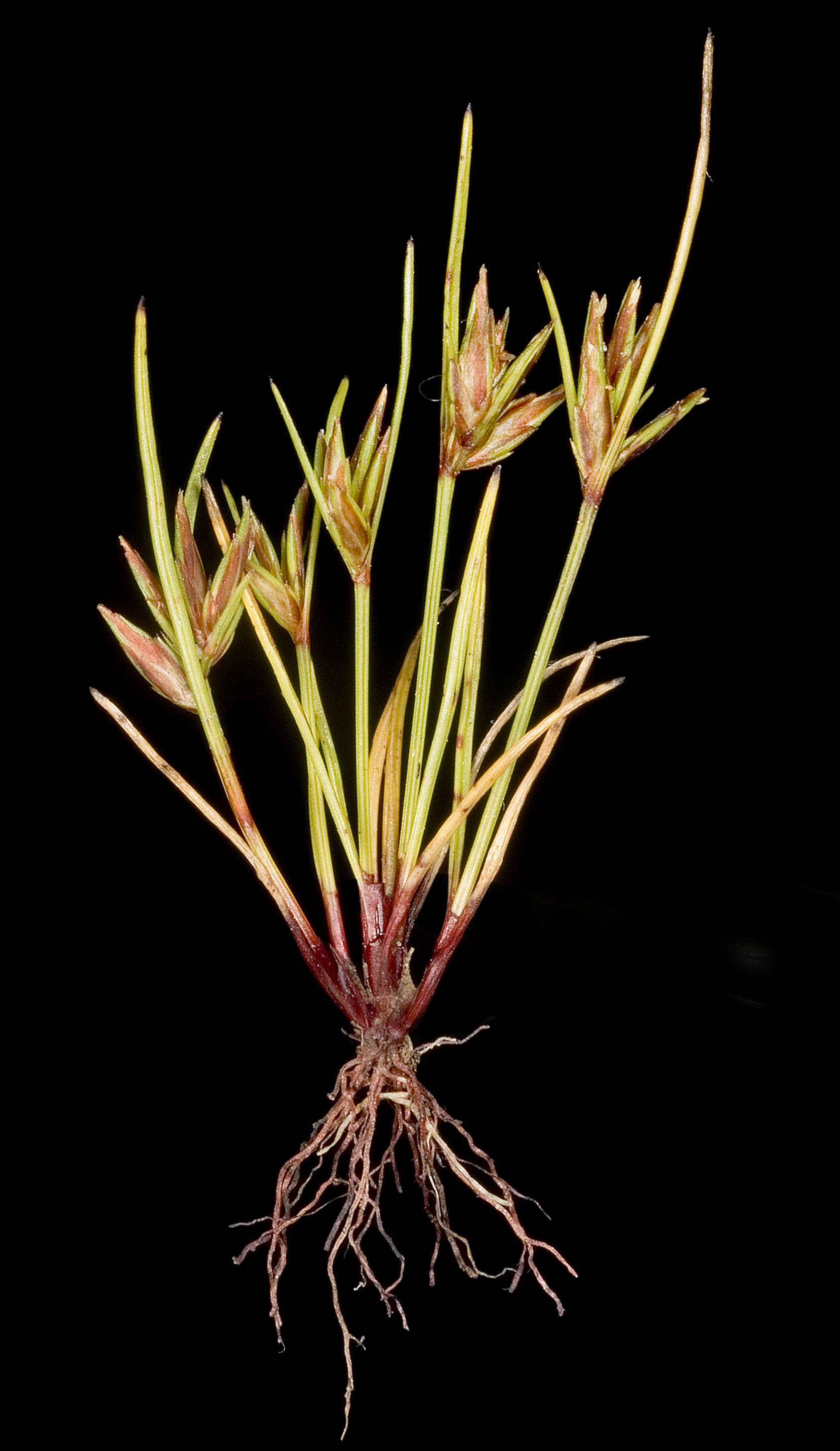 KL Brown 800